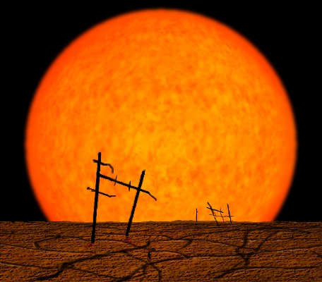 Artist's conception of the remains of artificial structures on the Earth after the Sun enters its red giant phase and swells to roughly 100 times its current size.